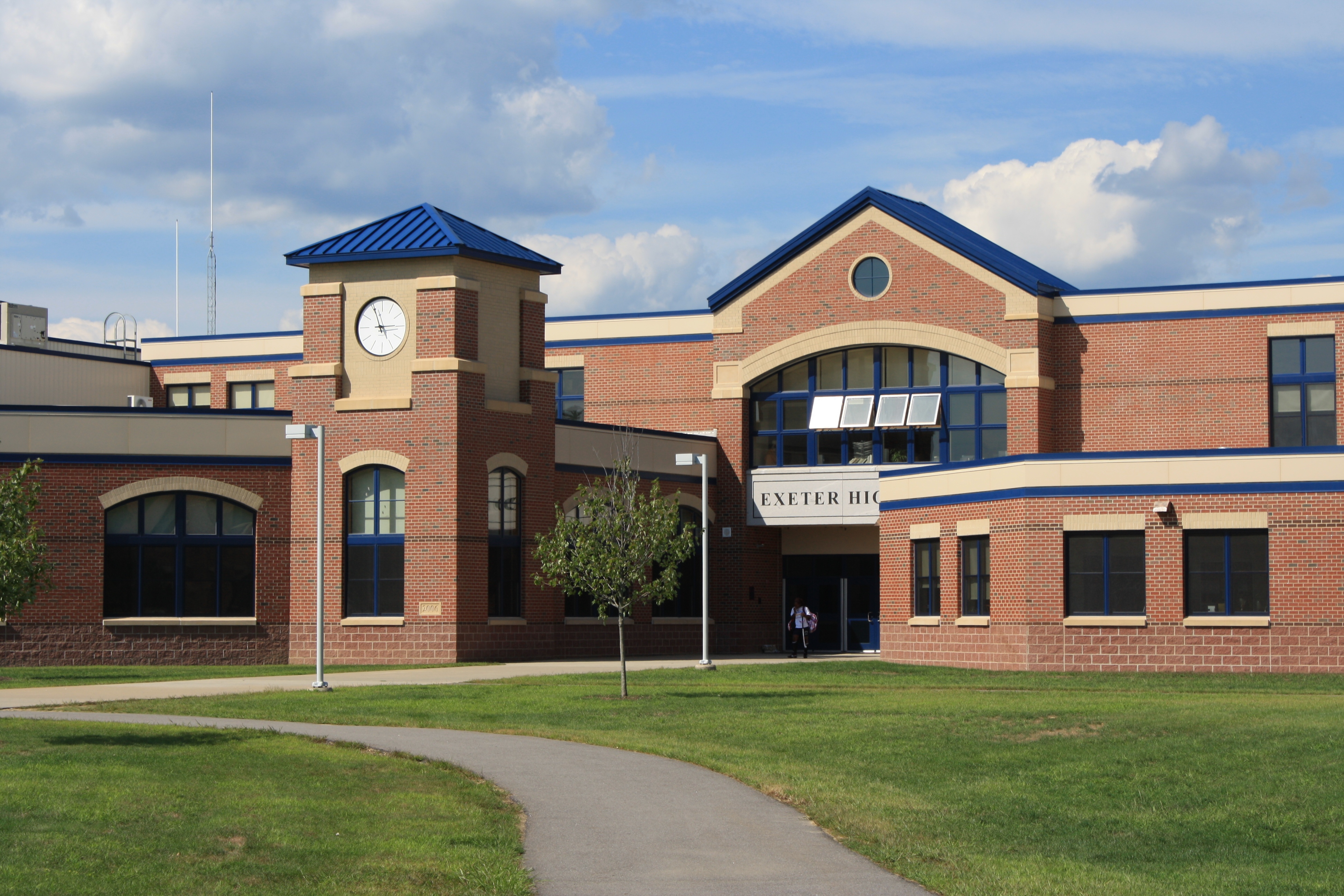 EHS Entrance